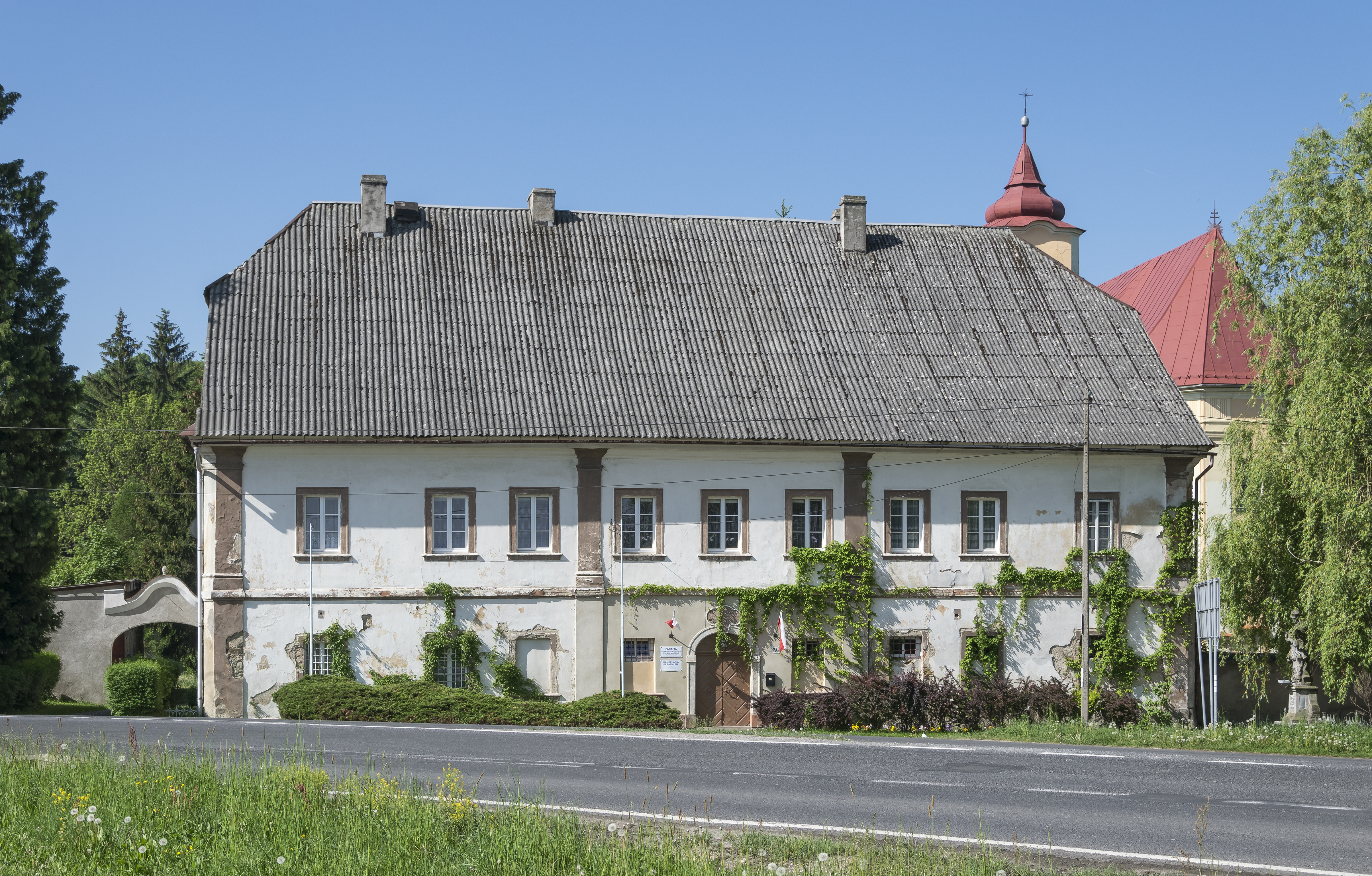 Rectory in Roztoki